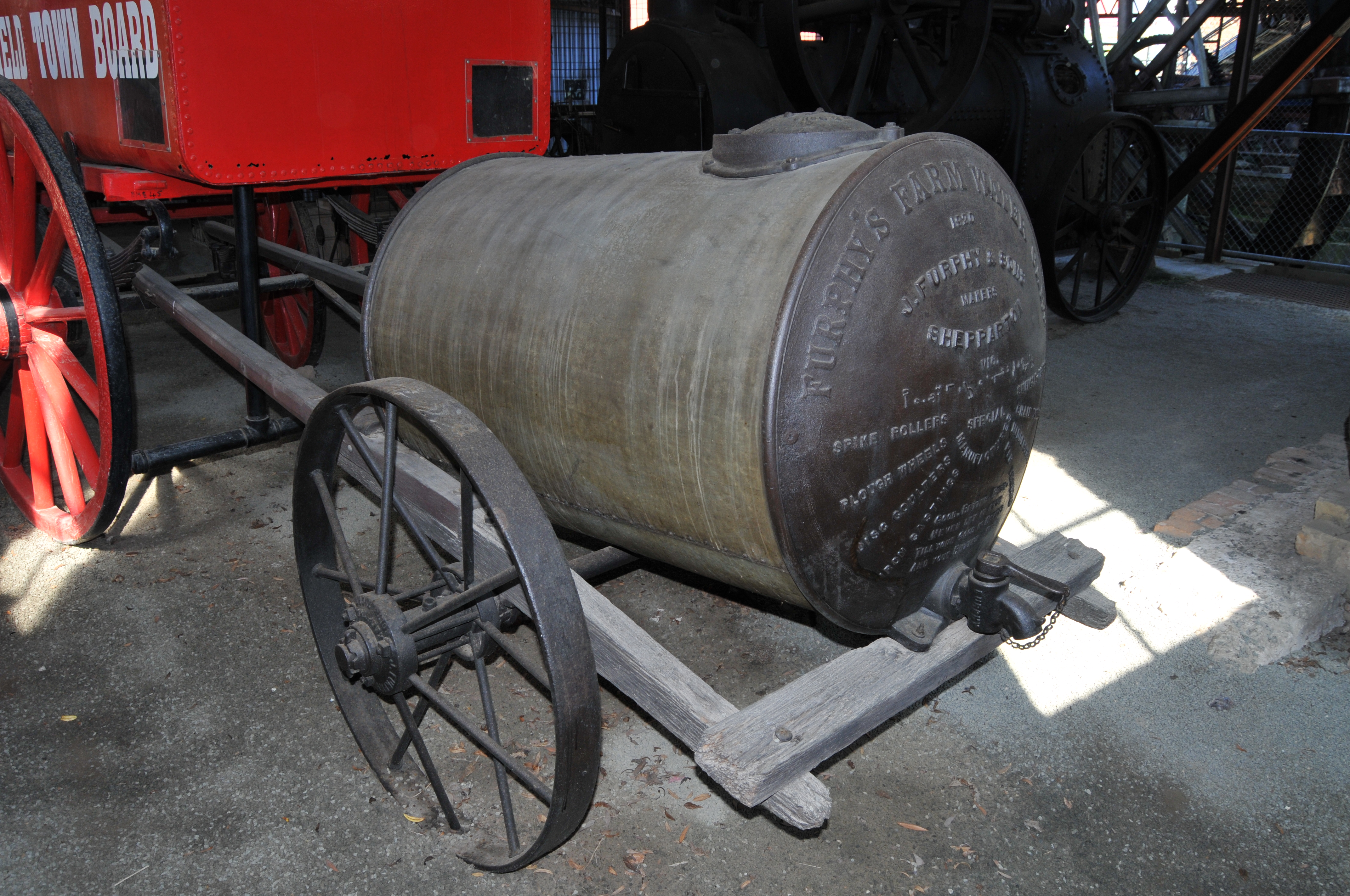 A Furphy's water Cart (by John Furphy) - used widely in Australia in the 19th and early 20th century. On display at Beaconsfield Mine Museum, Tasmania